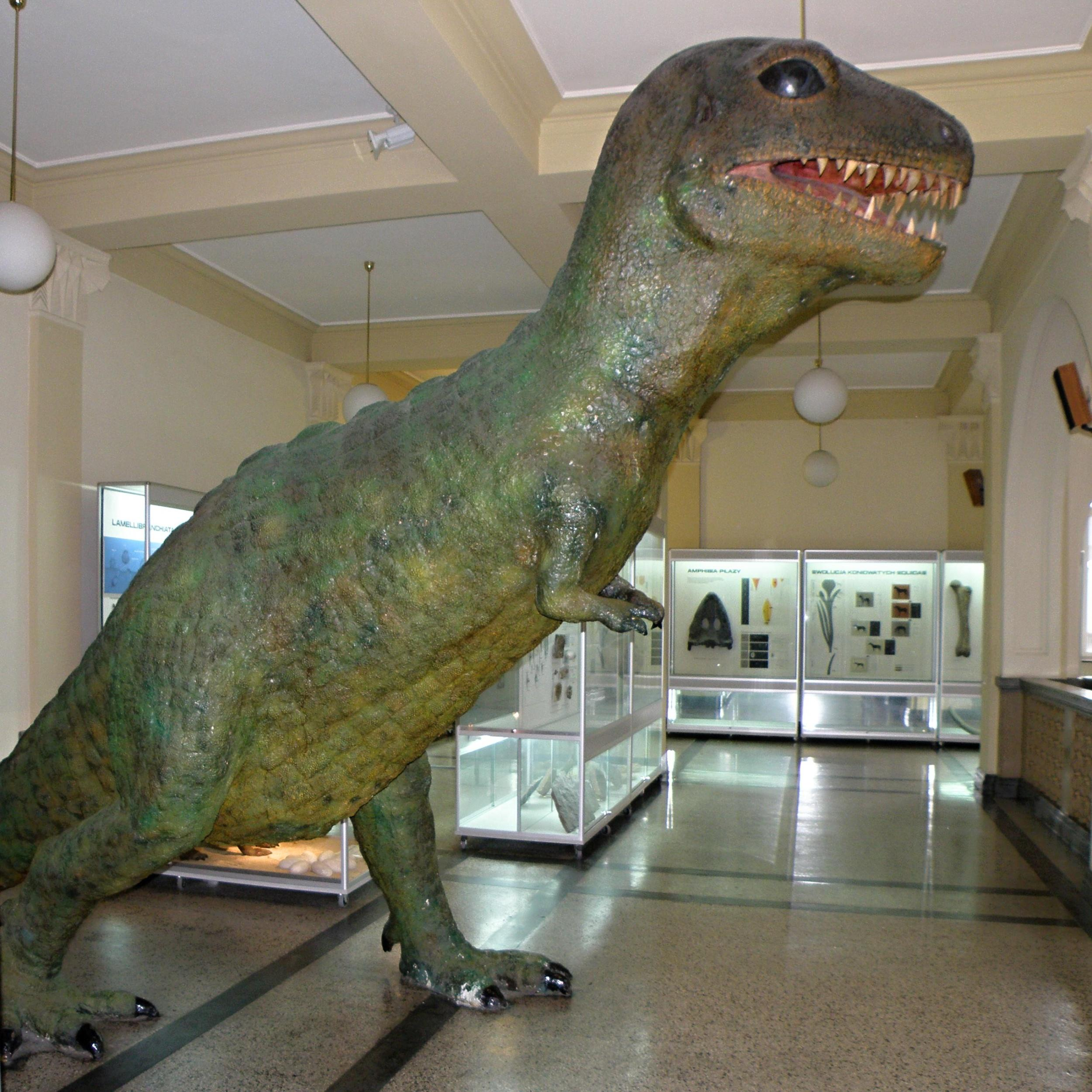 A model of T-Rex at AGH University of Science and Technology in Cracow, Poland.